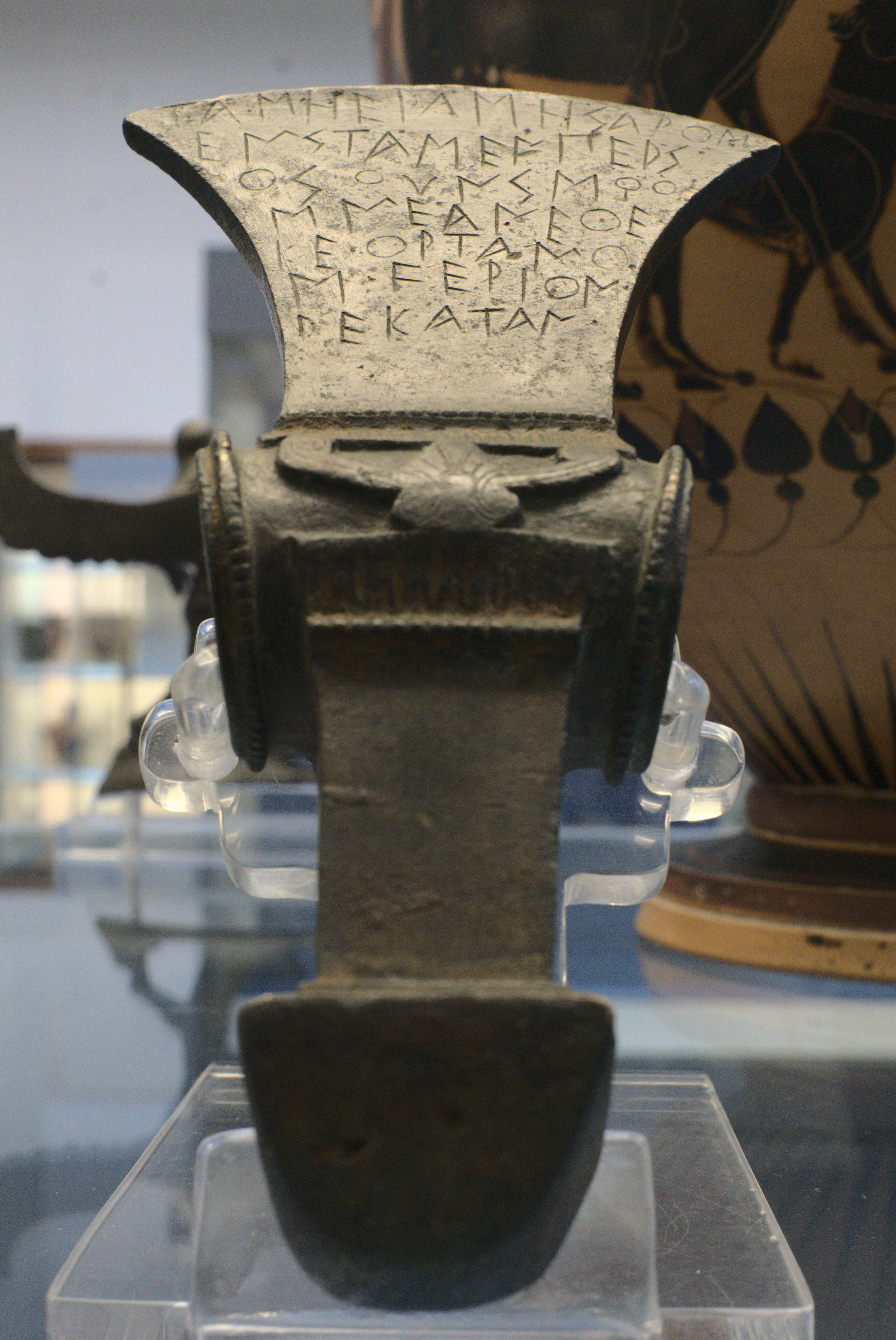 Bronze axe-head found near San Sosti, Calabria. 520 BC. Inscribed with a dedication from Kyniskos the butcher to Hera-in-the-Plains. Shaft decorated with a winged creature, possibly a sphinx. Room 73, British Museum. inv. no. GR 1884.6-14.1.